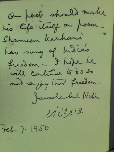 Jawaharlal Nehru, the first Prime Minister of India wrote these lines in Shamim Karhani's diary, who was one of the greatest Urdu poets of the 20th century of India.